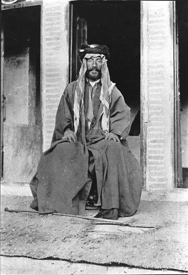 Mizhir al Fara'un seated in front of house, photographed by Gertrude Bell